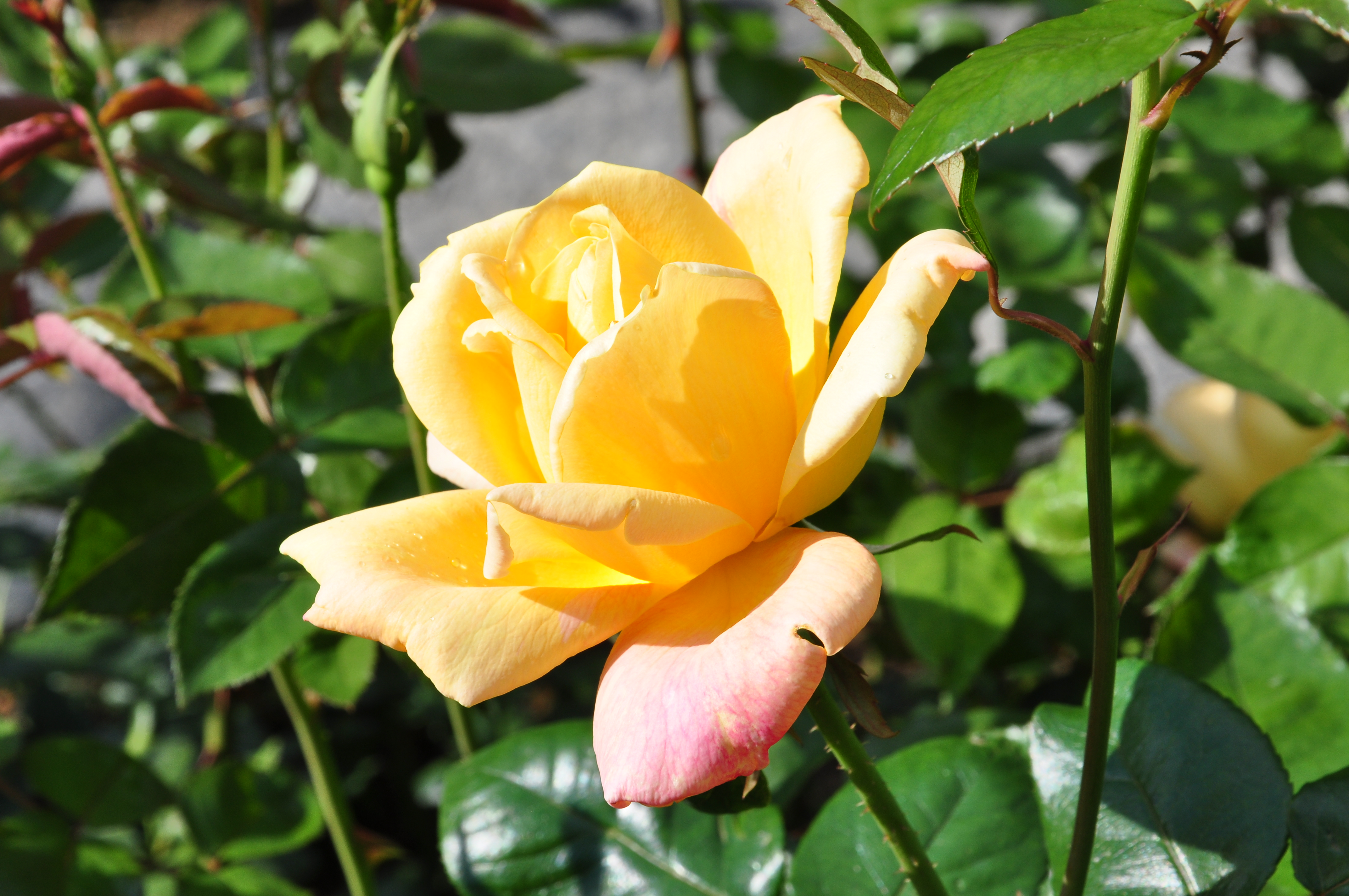 Rose named Sutters Gold (TH Swim 1950) in Duftrosengarten for blind people in Rapperswil (Switzerland)